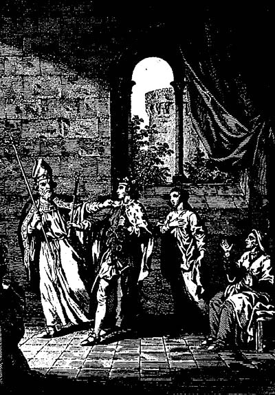 Drawing by Samuel Wale, entitled "The Insolent Behaviour of Dunstan to King Edwy on the Day of his Coronation Feast." in Thomas Mortimer's New History of England. 3 vols: vol. 1. 1764-6.